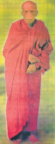 Photograph of Most Venerable Hikkaduwe Sri Sumangala Thera.